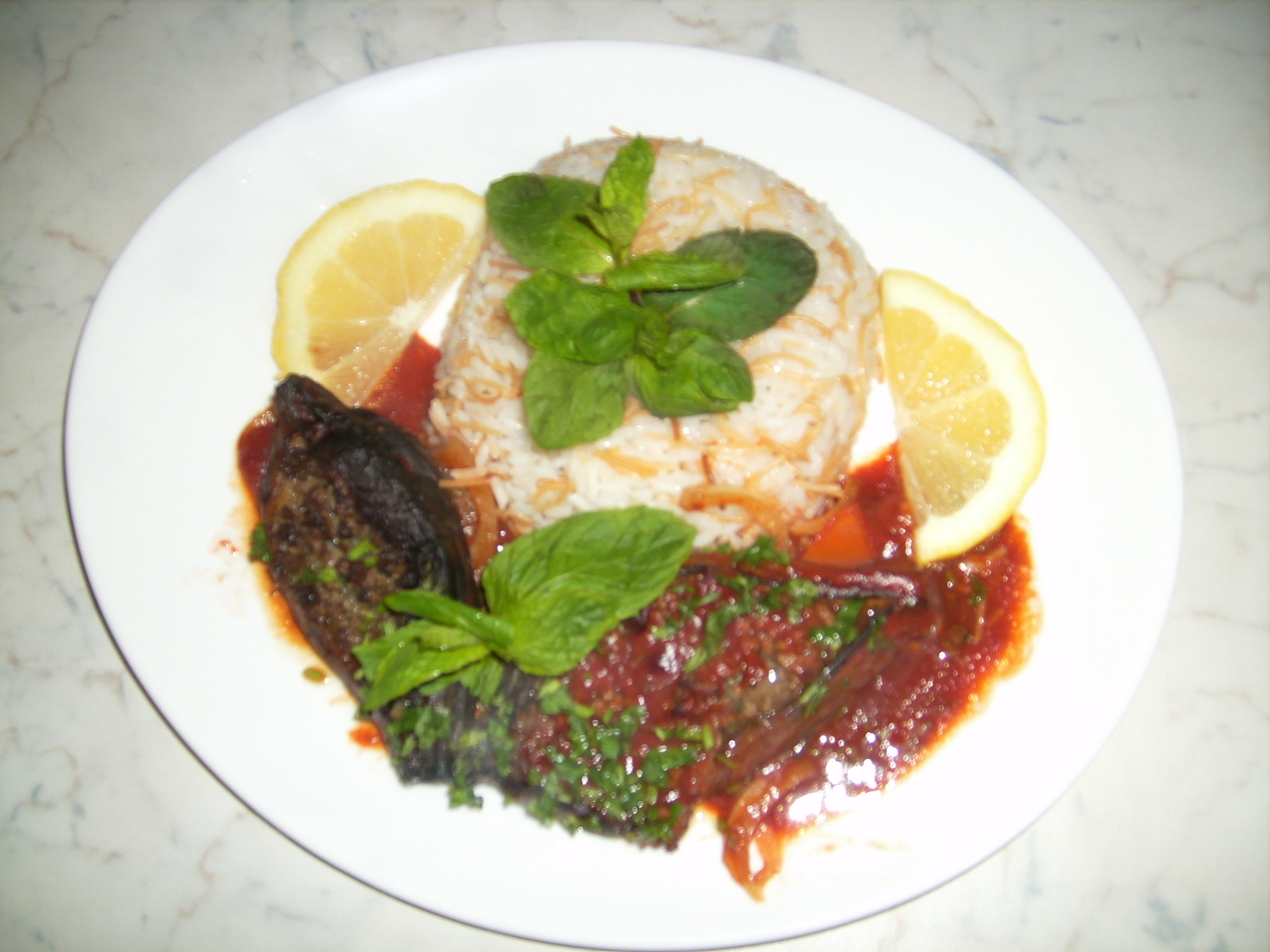 Sheikh Mahshi served with rice.